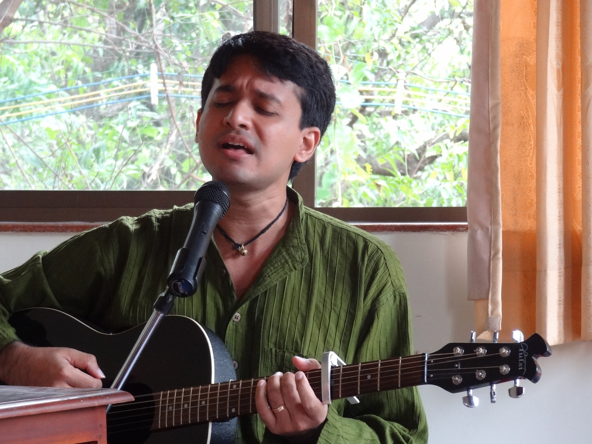 Vedanth performing at Coimbatore on 05 Dec 2011